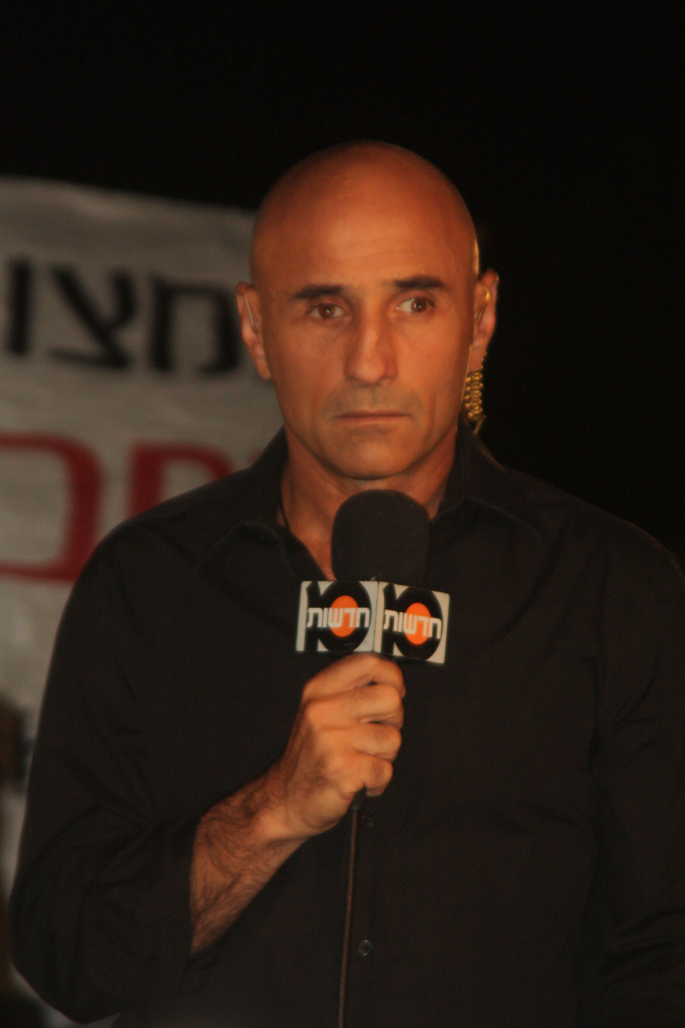 Ofer Shelach